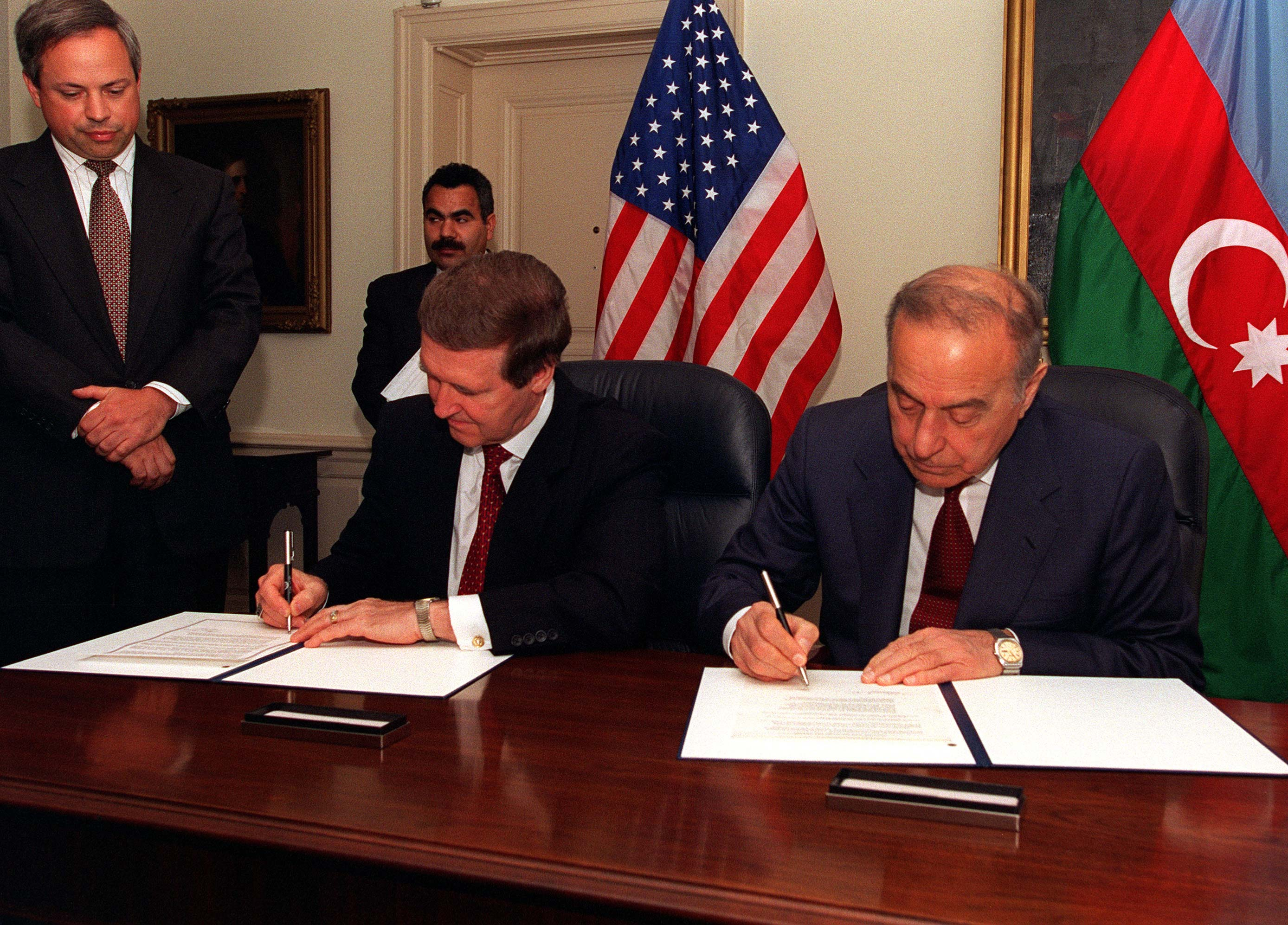 Secretary of Defense William S. Cohen (left) and President Heydar Aliyev (right) of the Azerbaijani Republic sign a joint statement emphasizing the development of strong U.S.-Azerbaijani defense cooperation. As a further step toward deepening the bilateral relationship, both sides expressed their intention to maintain regular consultations and exchanges between defense ministries on issues of security and military cooperation. The signing took place on July 31, 1997 at the Pentagon.